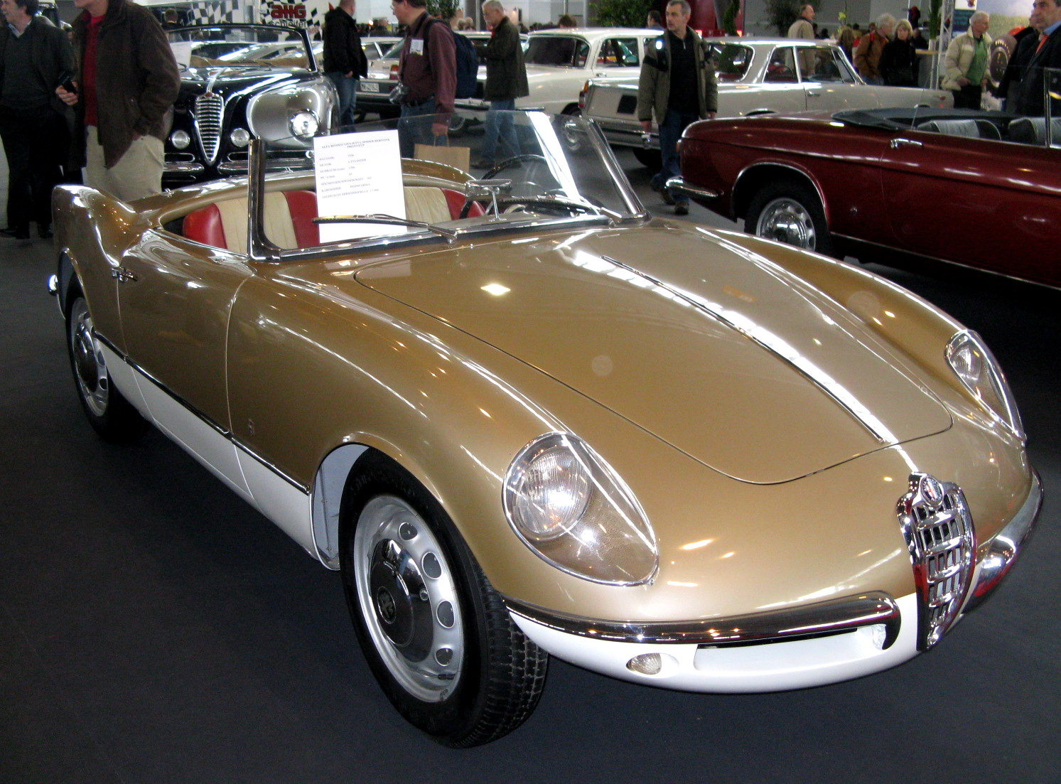 1956 Alfa-Romeo Giulietta Spider Bertone prototype